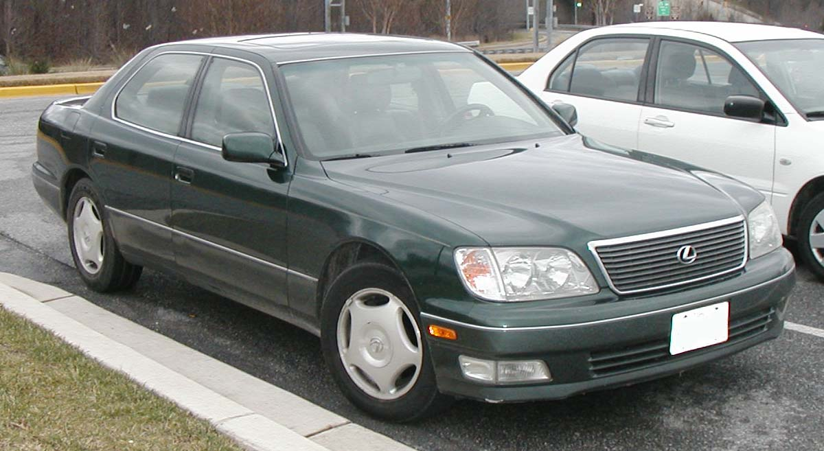 1998-2000 Lexus LS400 photographed in USA.